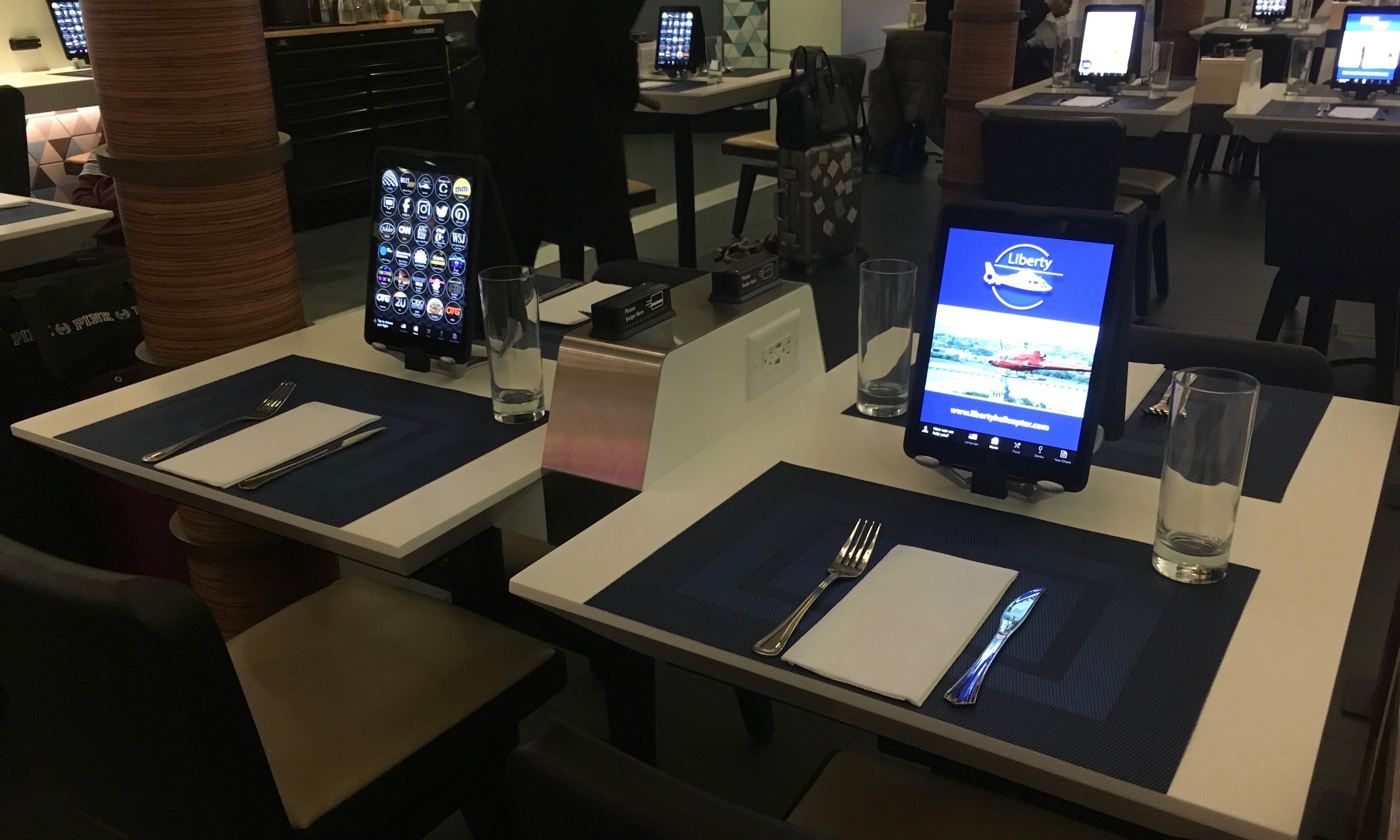 iPad Tables at EWR